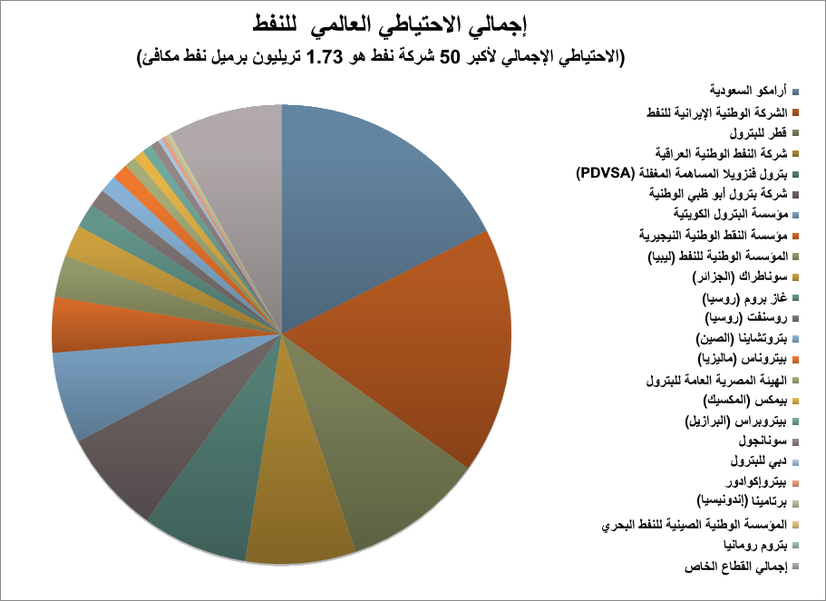 The distribution of oil and gas reserves among the world's 50 largest oil companies